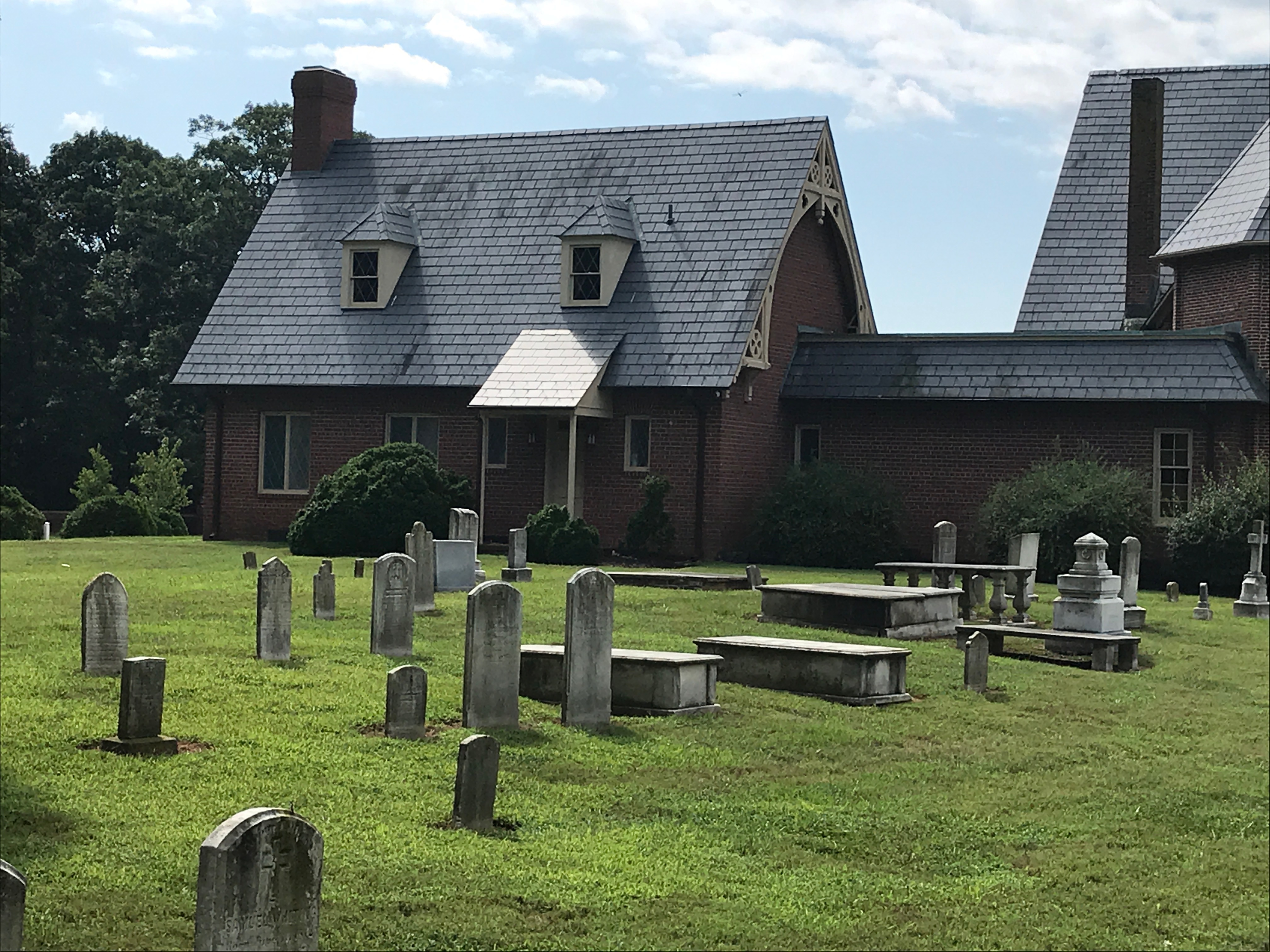 Cemetery behind St. Peter's Church in Queenstown Maryland